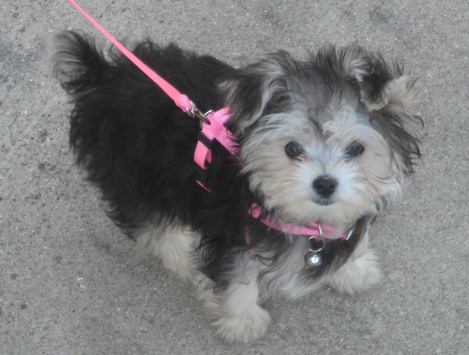 Morkie going for a daily walk